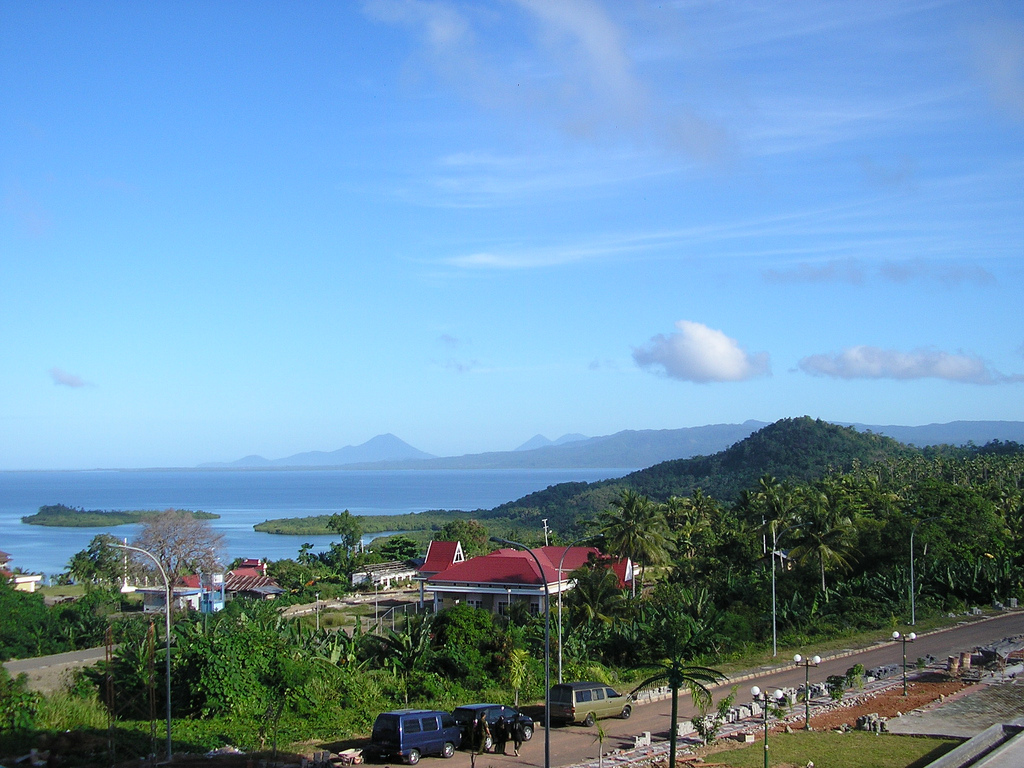 Sofifi, Halmahera Tengah, North Maluku, Indonesia